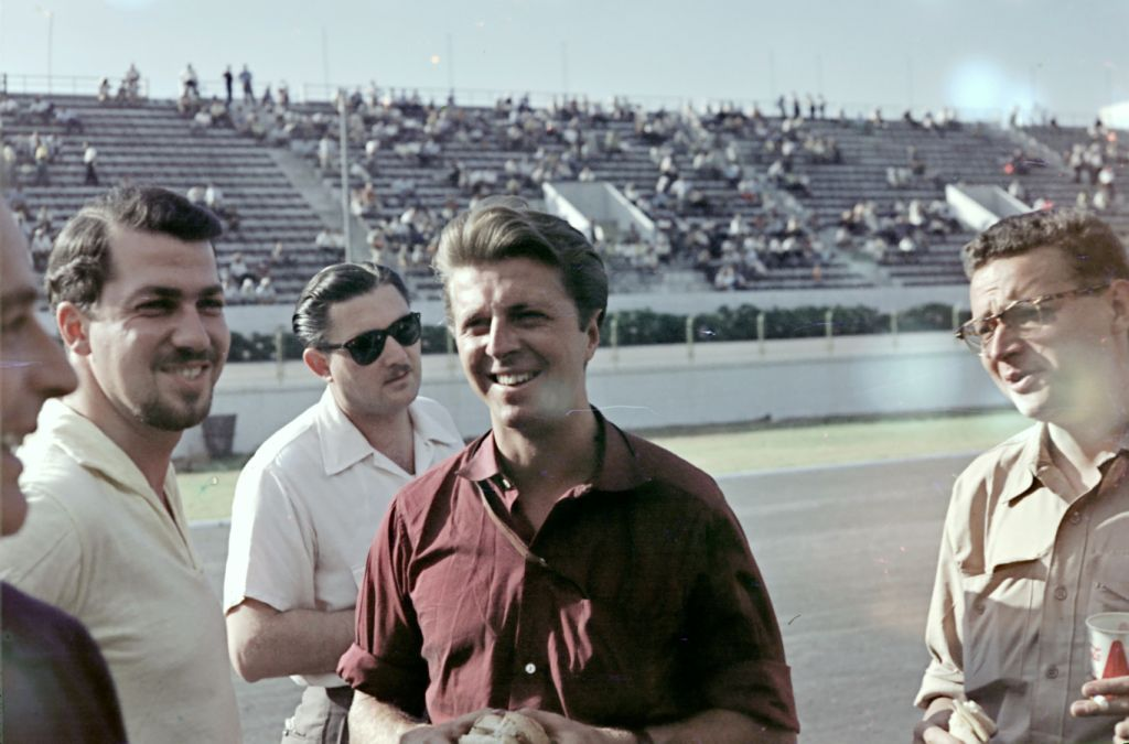 The 1957 Argentine GP. Drivers Jo Bonnier (left) & Wolfgang von Trips (centre). Photo by Carlos Alberto Navarro.